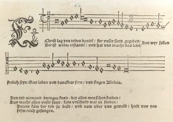 From Martin Luther's Geystliche gesangk Buchleyn (Walthersches Gesangbuch), 1524; tenor voice for Christ lag in Todesbanden